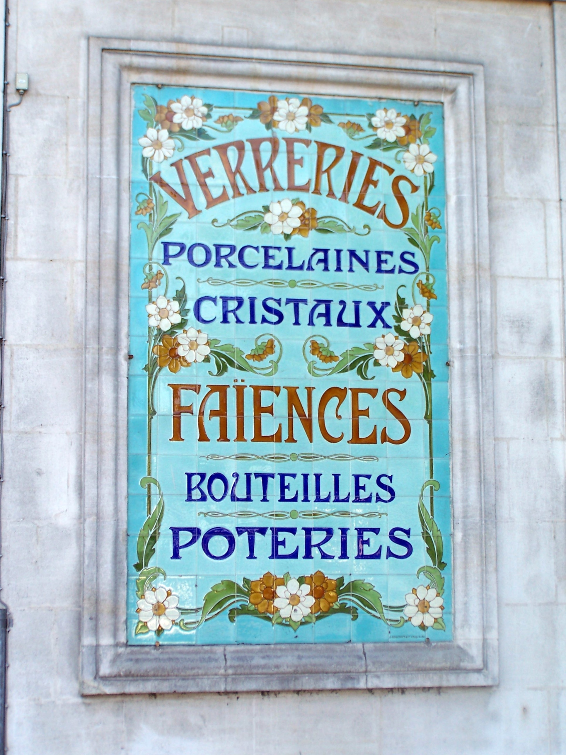 Advertisement for pottery works 3 bld Ulysse Casse in Marmande (Lot-et-Garonne, France)